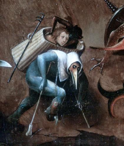 The Last Judgment [detail].